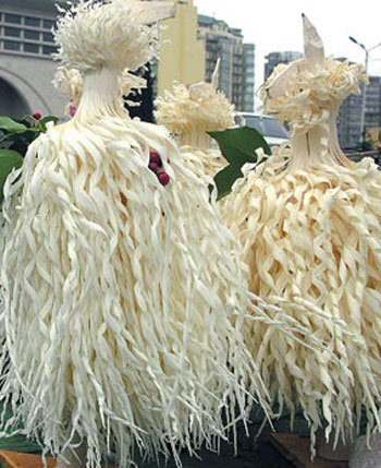 Chichilaki